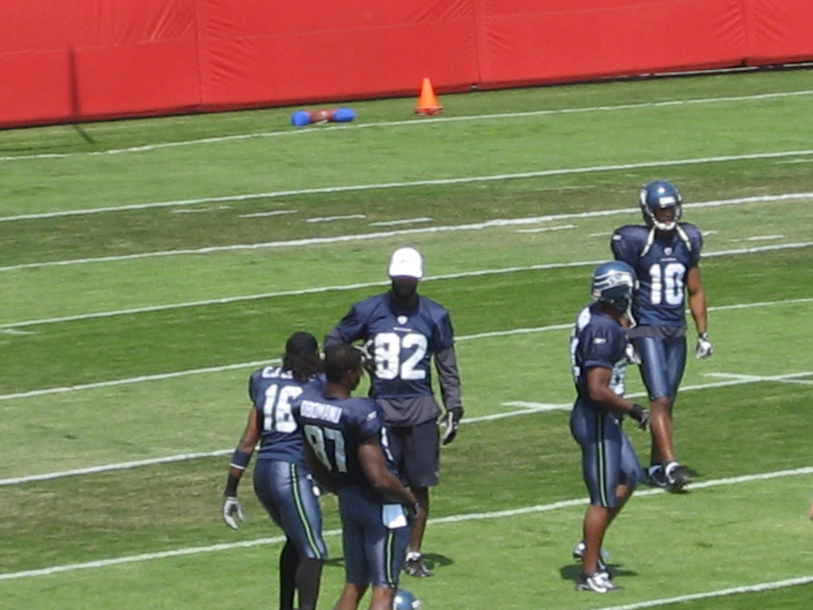 Picture of Seahawks Practice Scrimage at Eastern Washington University, Cheney Washington. (l to r) CJ Jones, Ben Obomanu, Darrell Jackson, Bobby Engram, Taco Wallace converse before the team scrimmage.